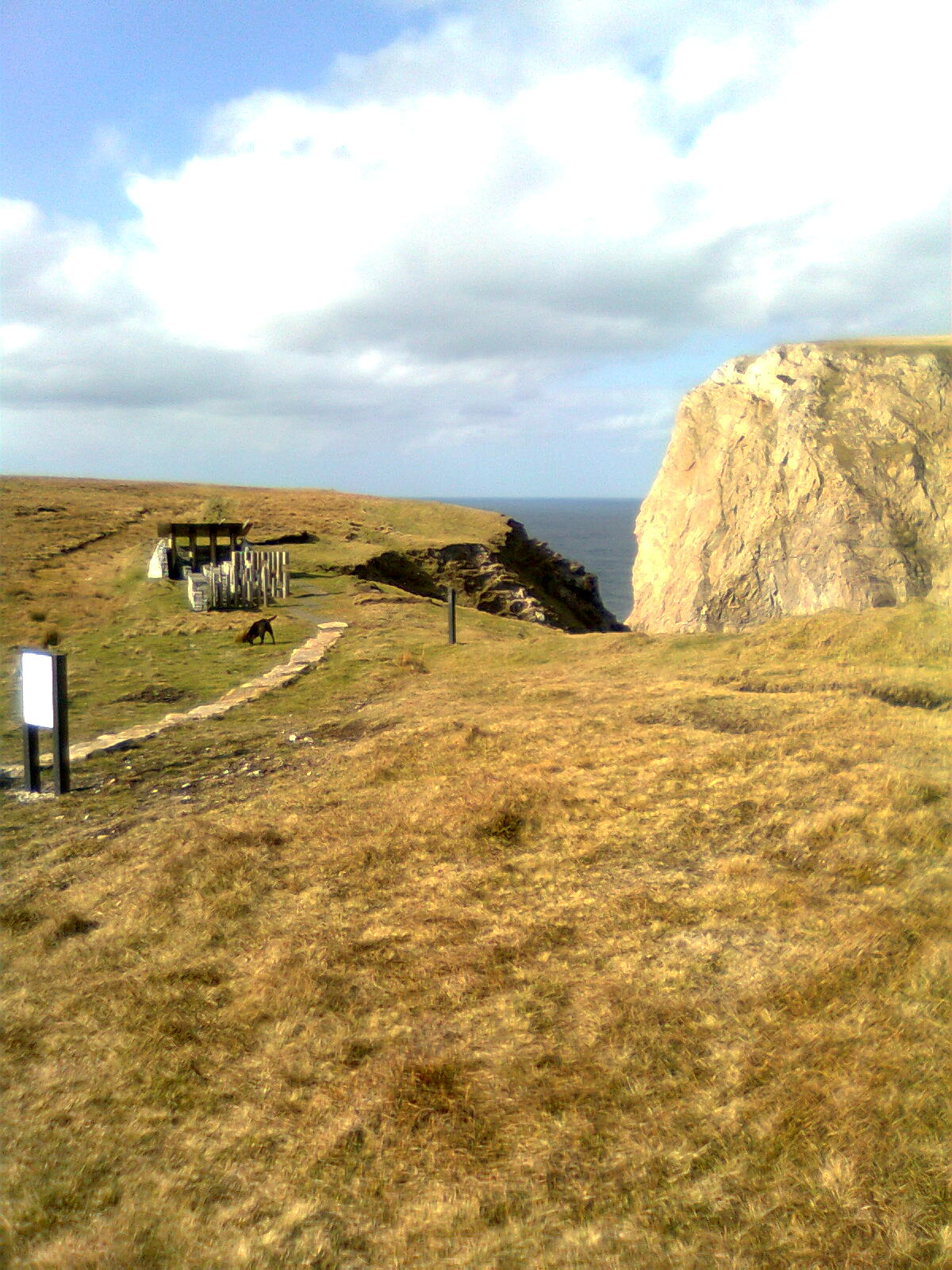 Tir Saile, Benwee Head Kilcommon Erris Mayo